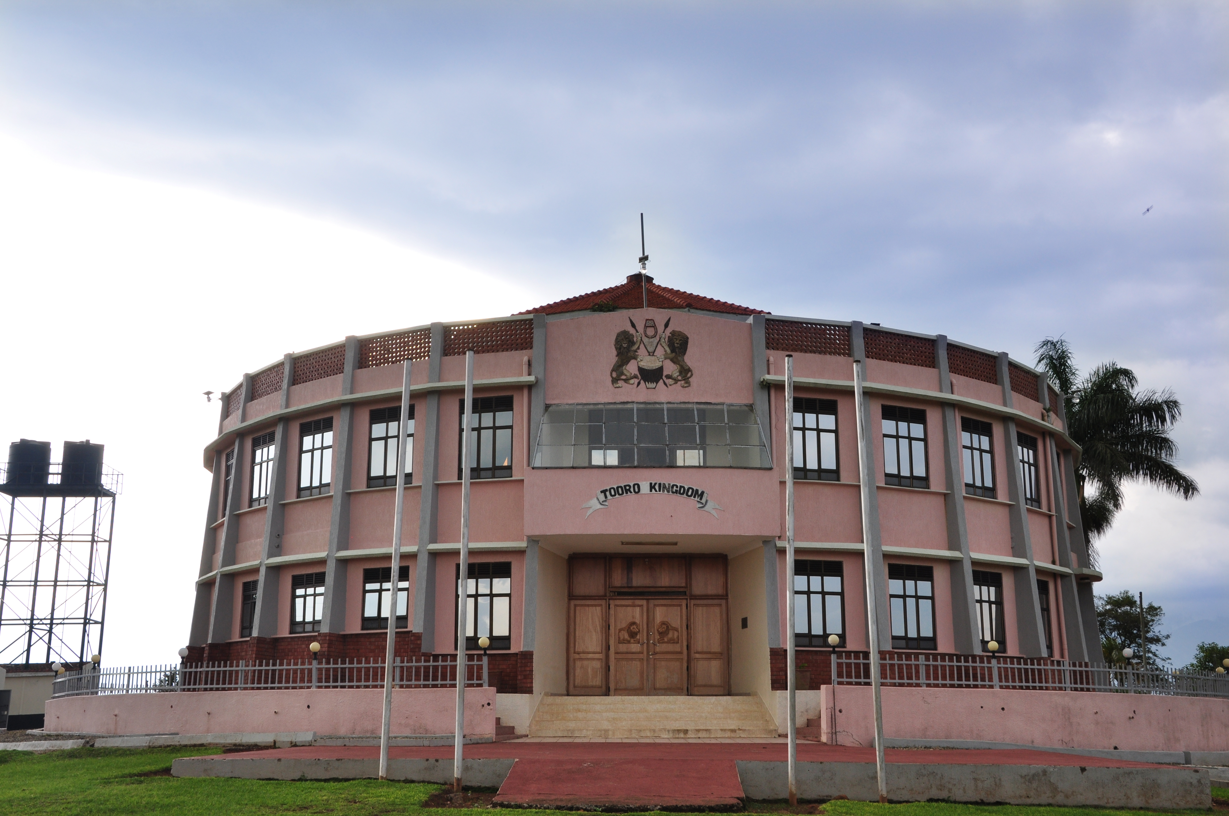 Toro Kings Palace of King Oyo, Rukirabasaija Oyo Nyimba Kabamba Iguru Rukidi IV found in Fort PortalToro Kingdom Toro. The King was boarn on 16 April 1992 to King David Mathew Kaboyo Oliimi III and Queen Best Kemigisa Kaboyo.